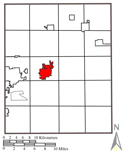 Map of Portage County, Ohio with the city of Ravenna highlighted.